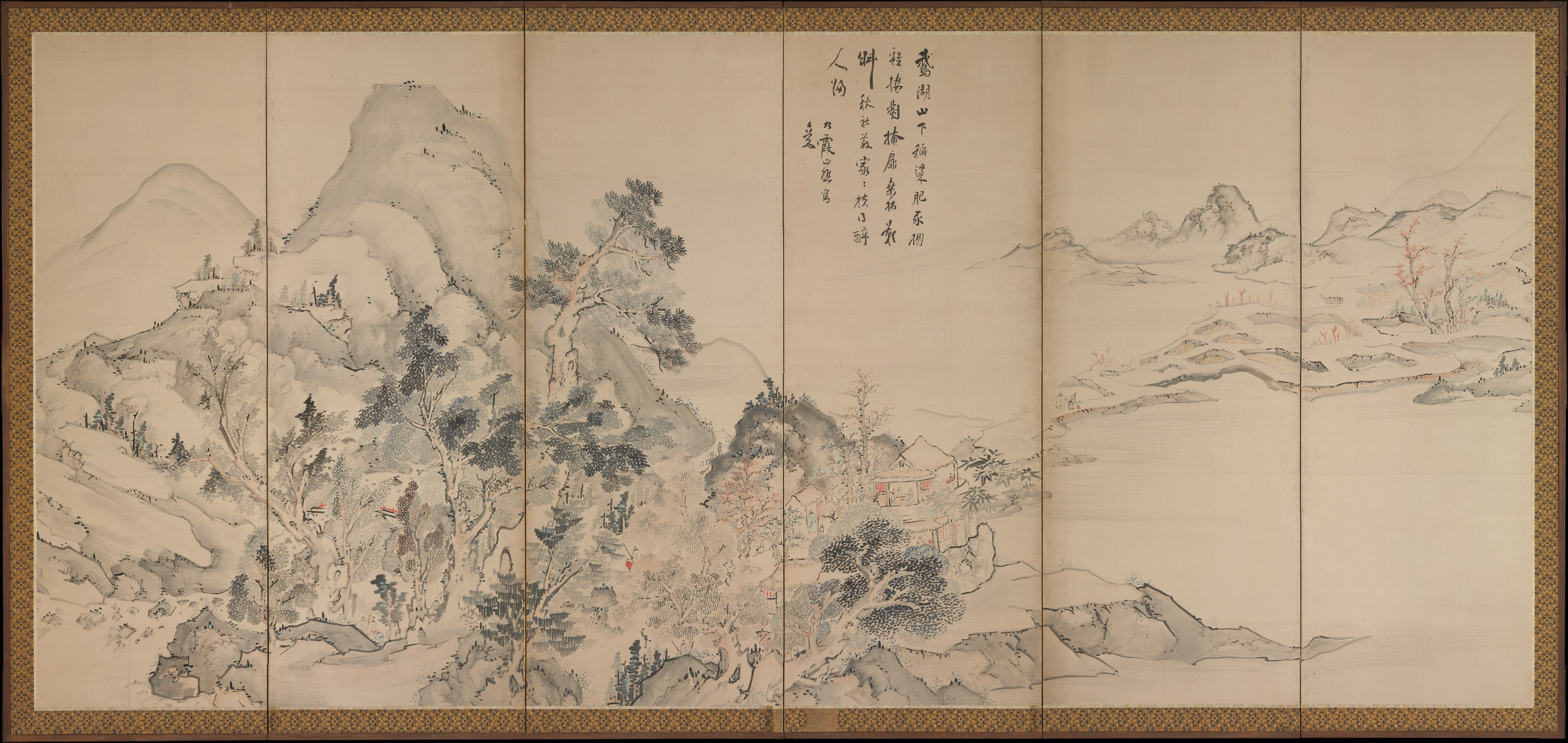 Japan; Folding screens; Screens